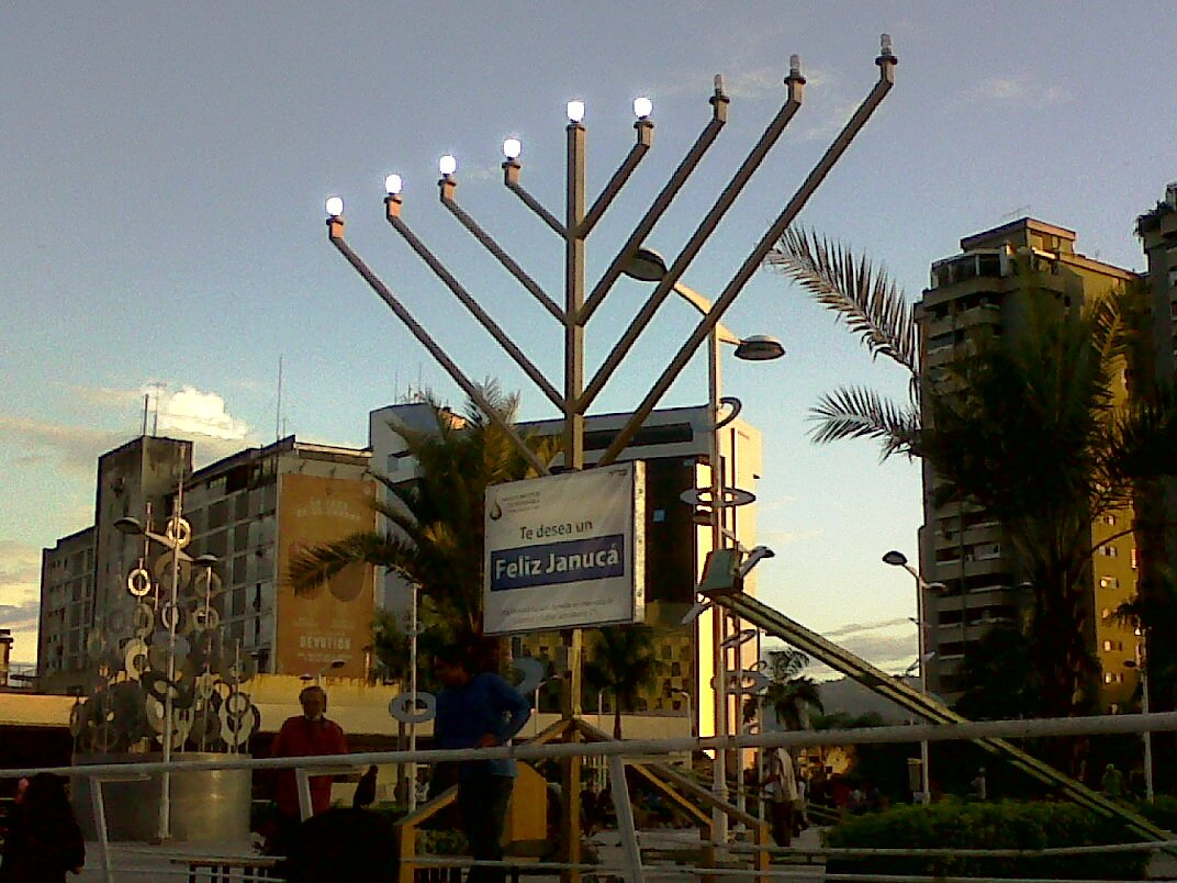 Hanukkiya displayed at Miranda Square in Caracas, Venezuela